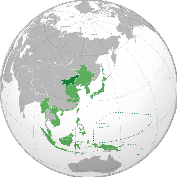 Mengjiang is displayed in dark green